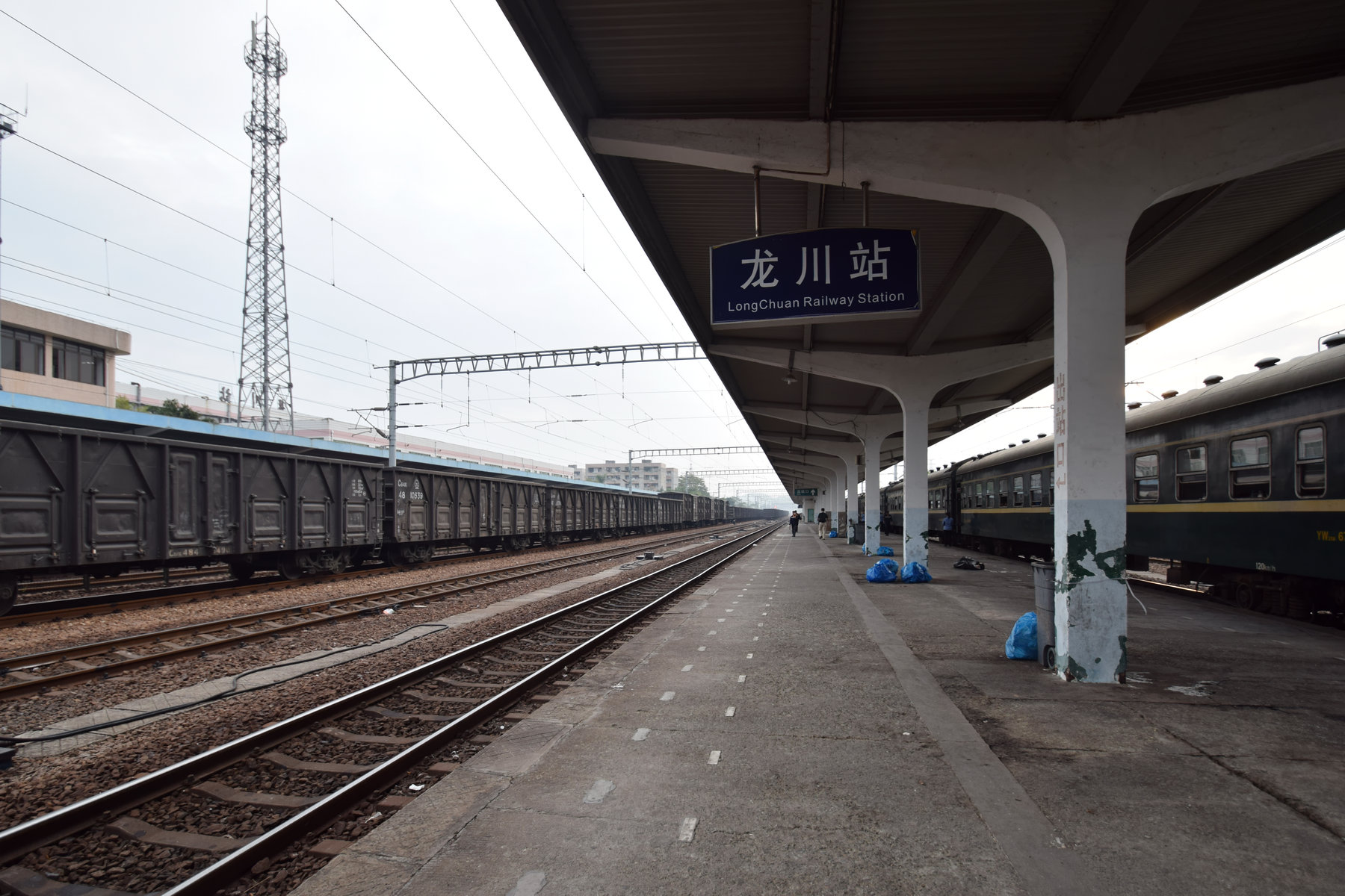 Platforms of Longchuan Railway Station, view towards Tuocheng Railway Station